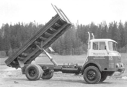 Vanaja VKB cabin-on-engine model. The end customer was Maa ja Kallio Oy in Helsinki.